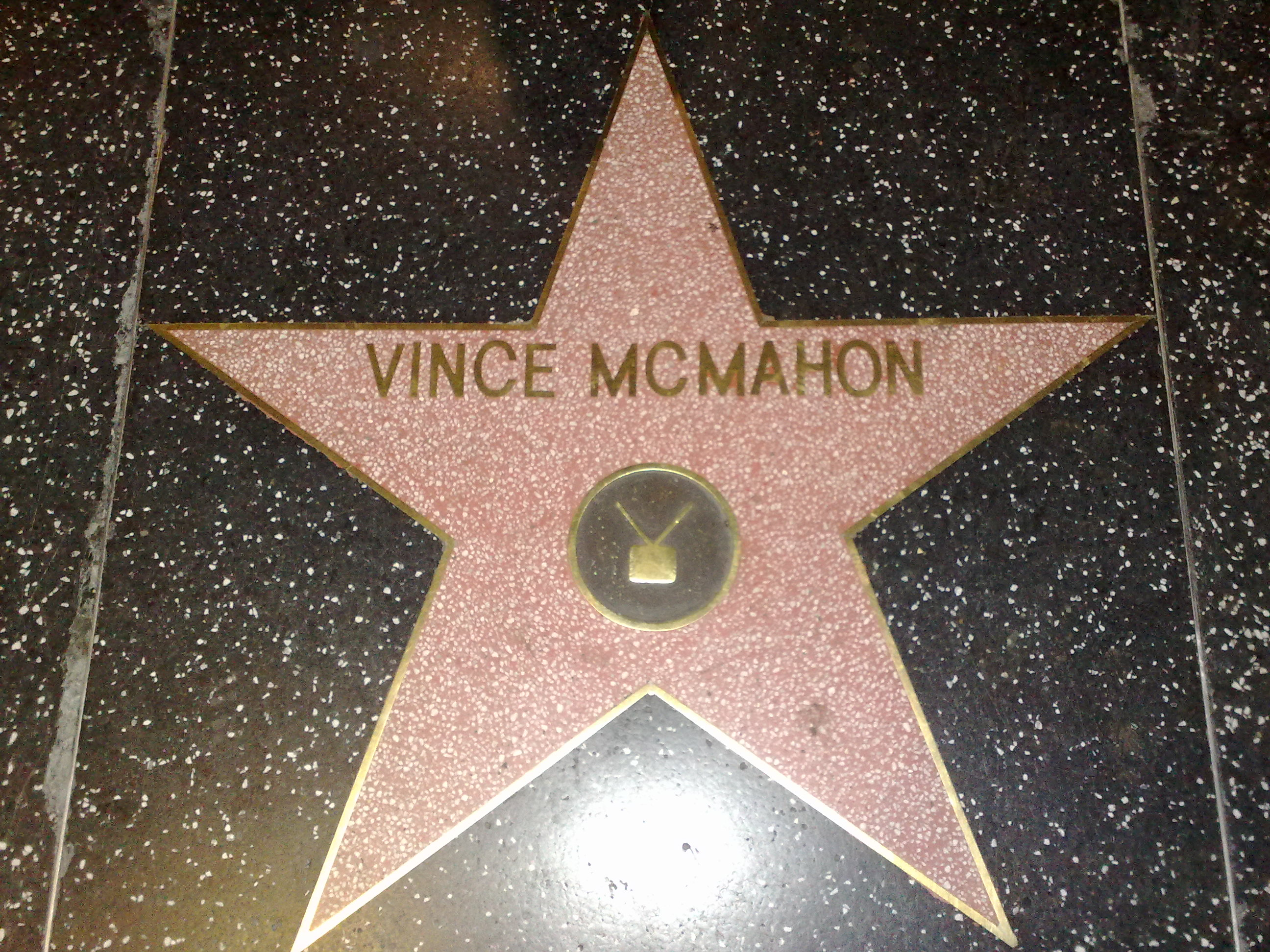 Vince McMahon, Walk of Fame